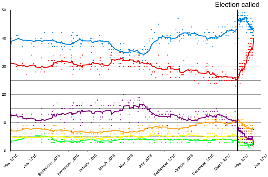 Opinion polling for the next UK general election